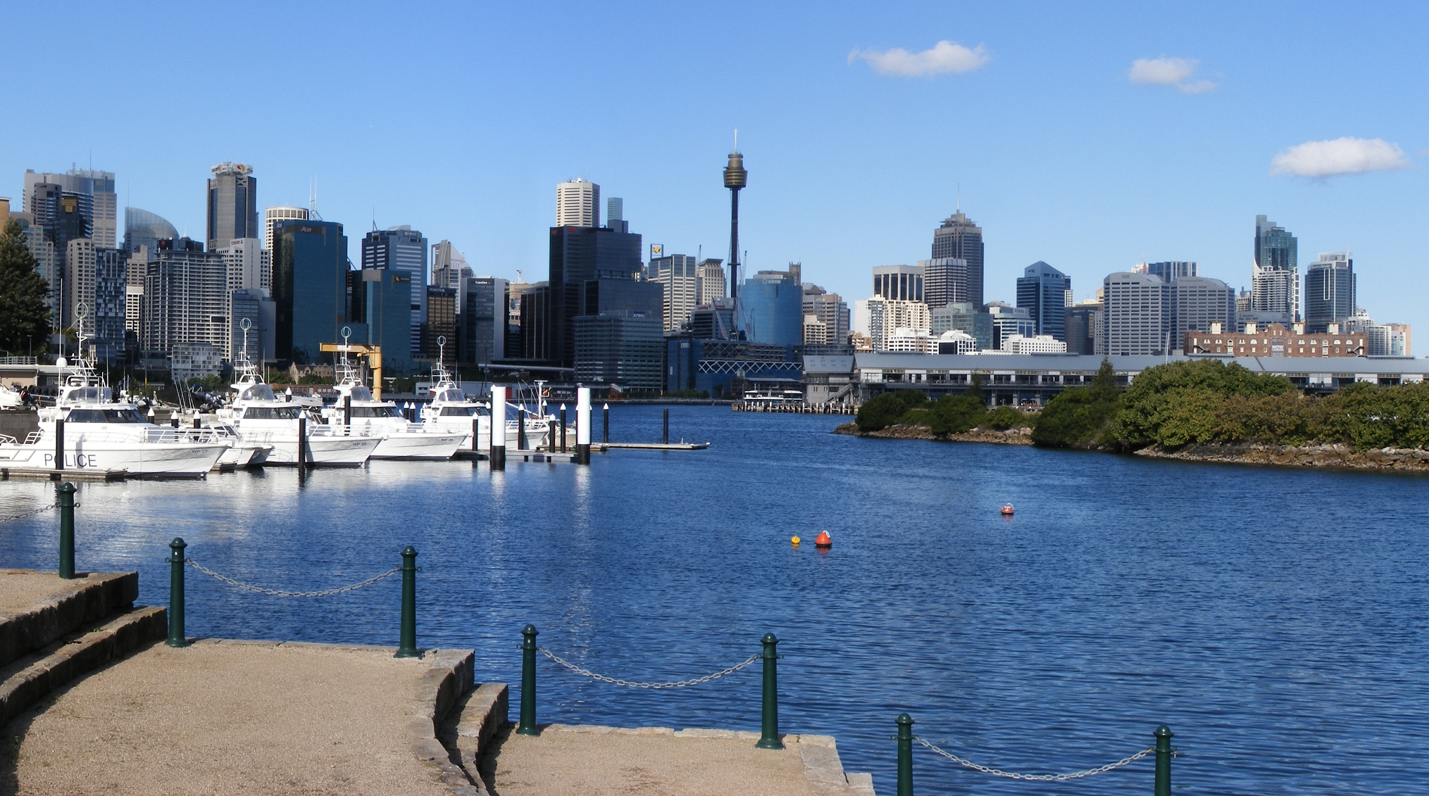 Sydney, as seen from Balmain. Sydney NSW.